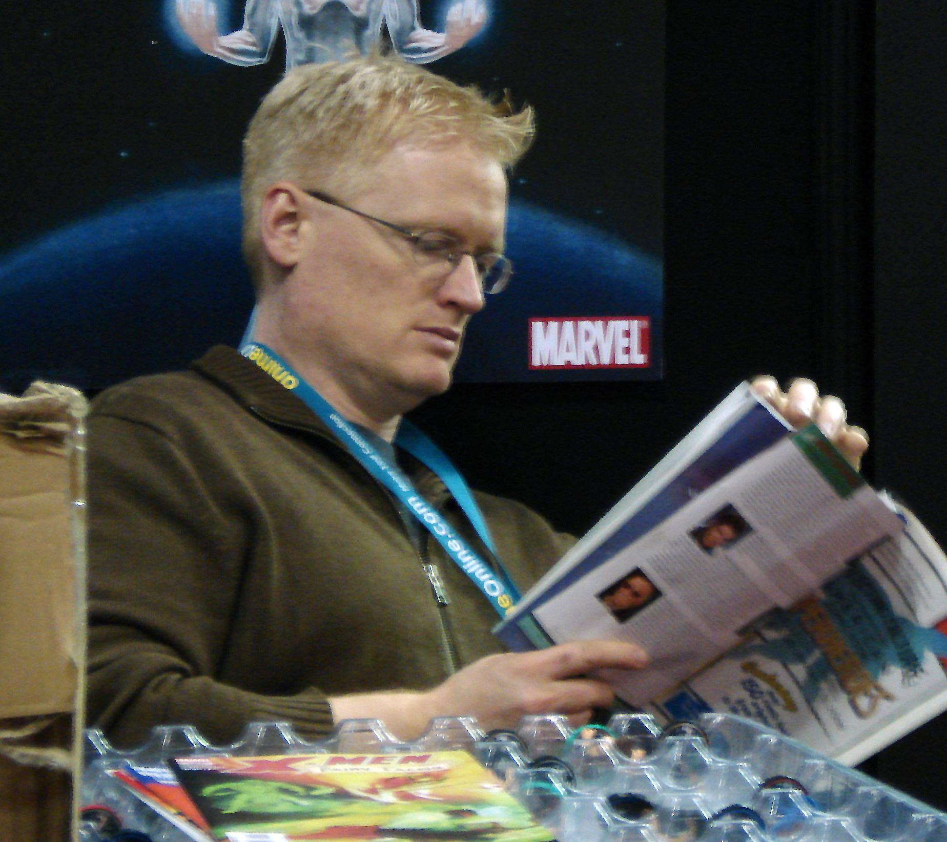 Marvel Comics publisher and C.O.O. Dan Buckley at the 2007 New York Comic-Con. Copyright 2007 Jeffrey O. Gustafson - released under the GFDL and CC-BY-SA-2.0.